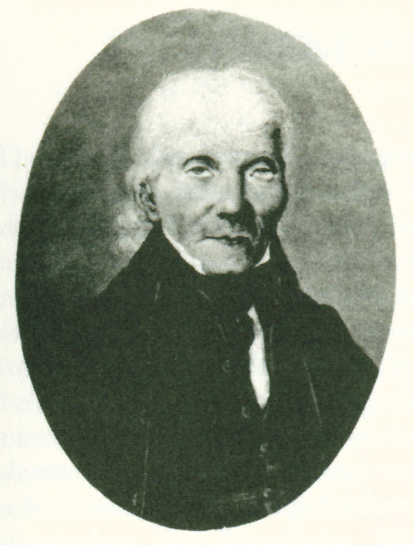 Quaker Ludwig Seebohm